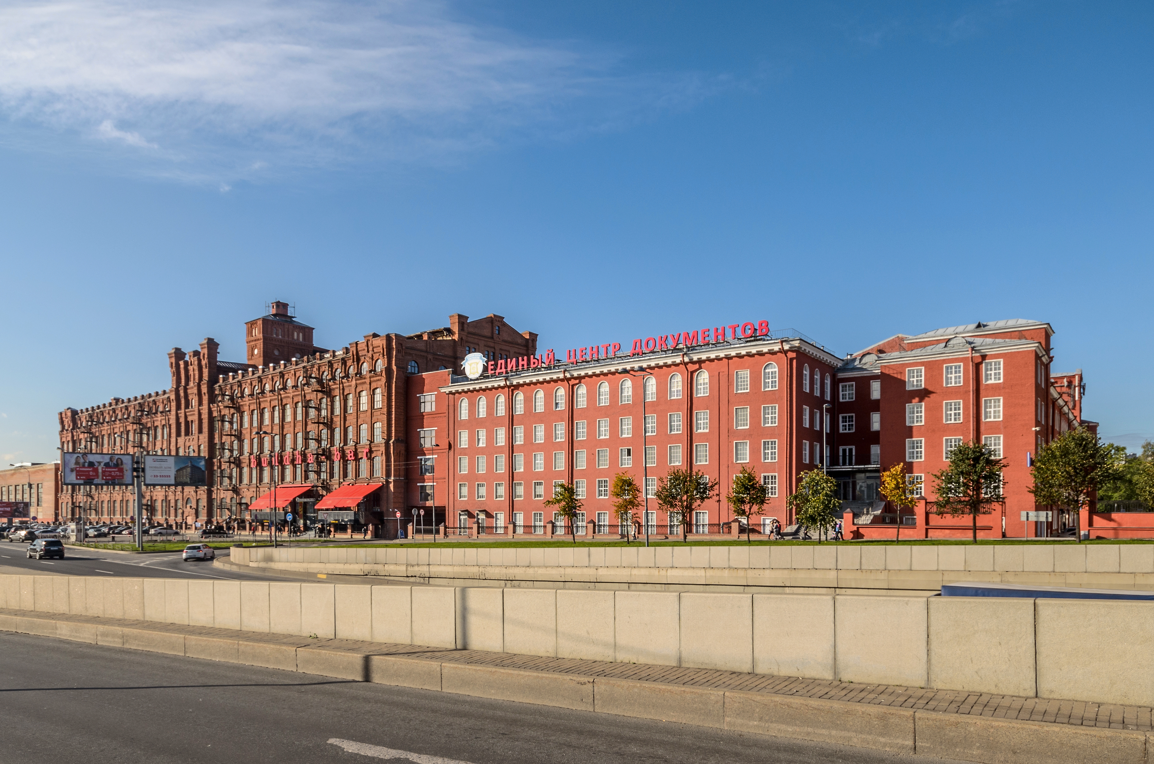 Sinopskaya Embankment in Saint Petersburg. Documentation Center.